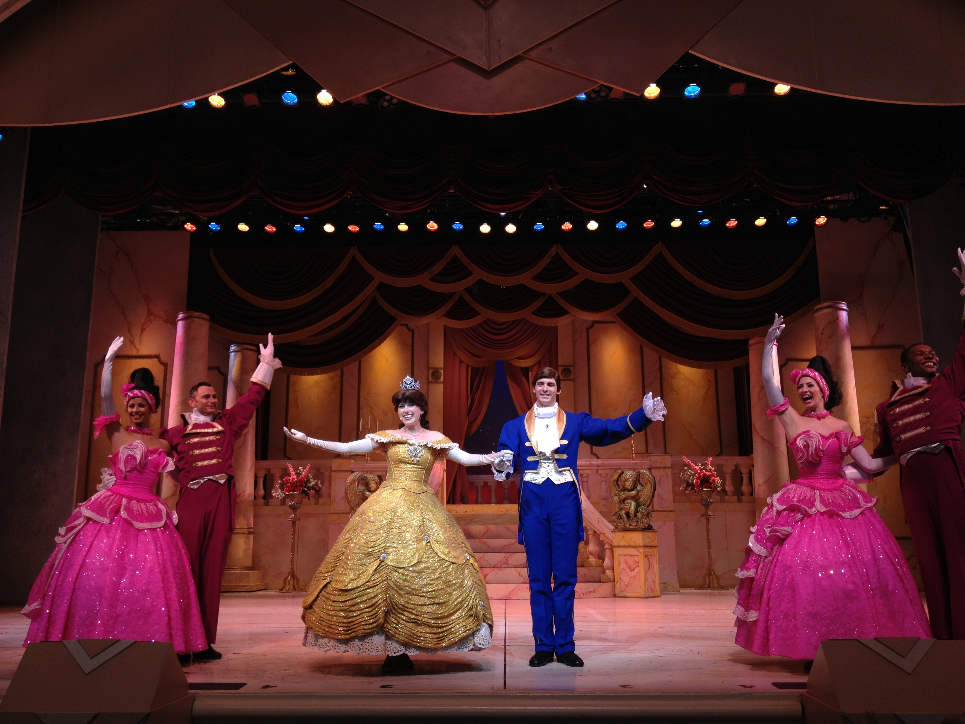 The finale at Beauty and the Beast Live on Stage at Disney's Hollywood Studios in Orlando, FL.